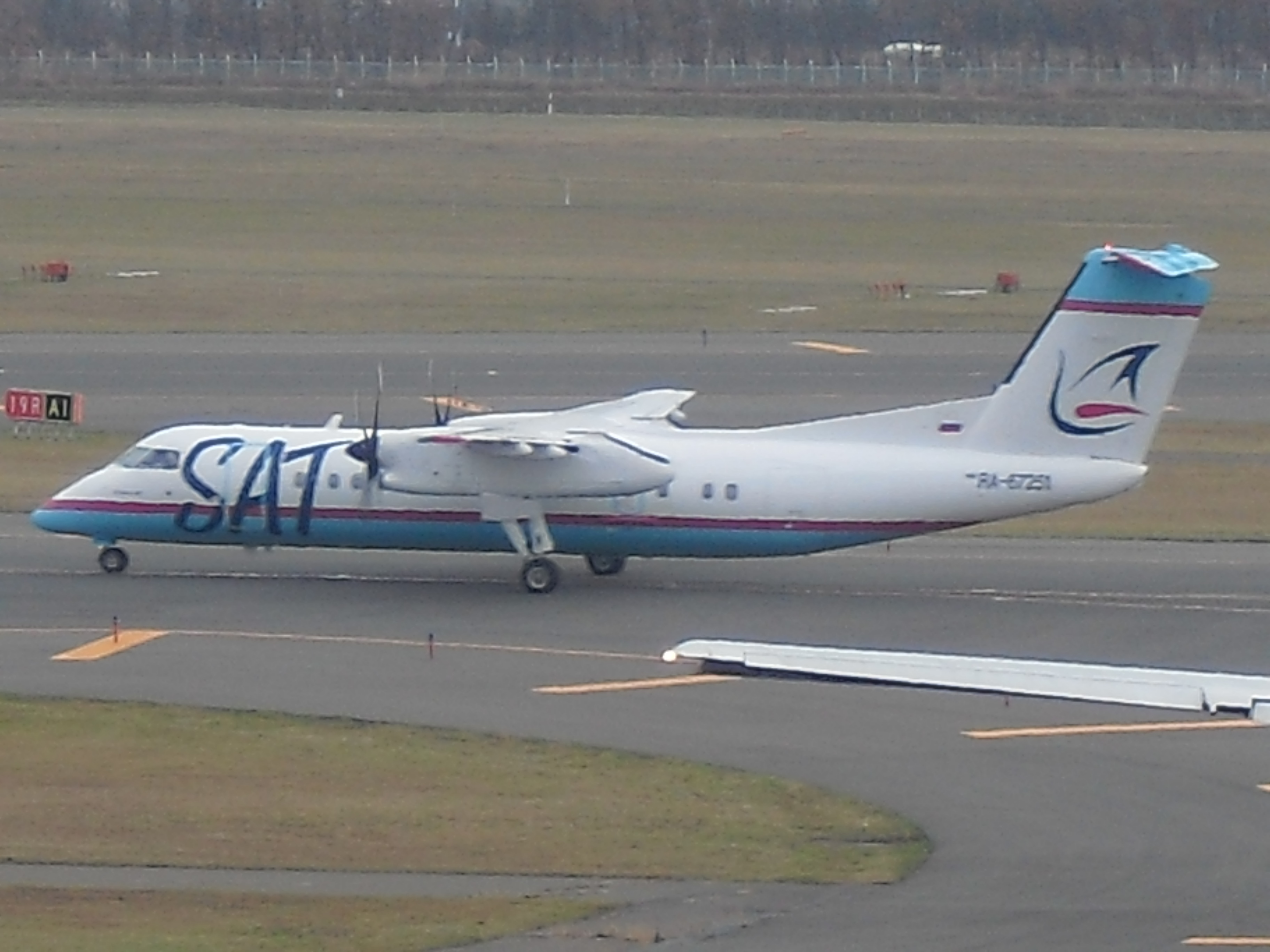 A Bombardier Dash-8Q300 of SAT Airlines at New Chitose Airport.